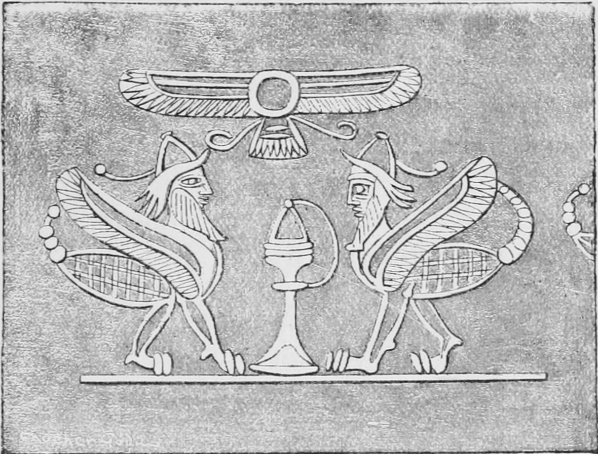 Scorpion men encountered by Gilgamesh, who guard the mountain of Mashu, west of the Gilgamesh. Drawing by Faucher-Gudin from an Assyrian intaglio.